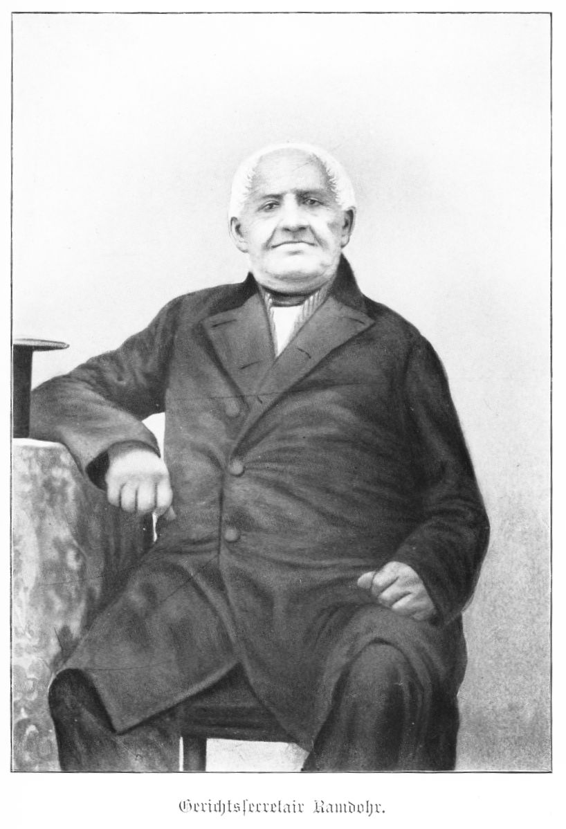 Photo of J. Daniel Ramdohr, Aschersleben 1900 scanned from F.C. Drosihn: Aschersleben im 19. Jahrhundert. Aschersleben 1900